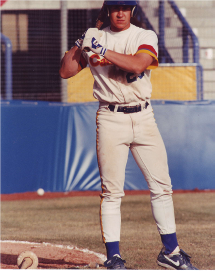 Bret Boone posing during the 1992 Calgary Cannons minor league baseball season.